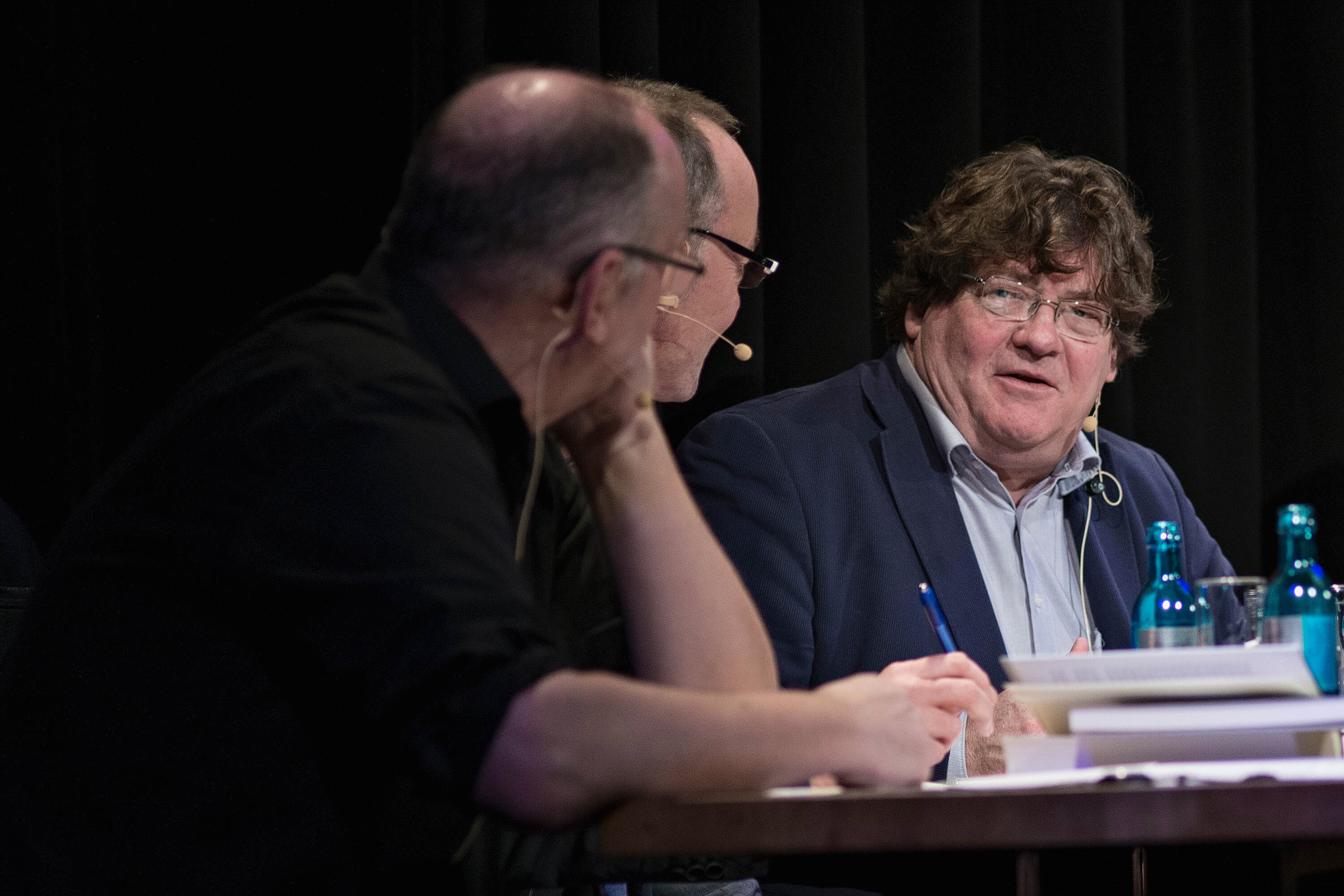 British writer John Burnside at Cologne, Stadtgarten, Literarischer Salon